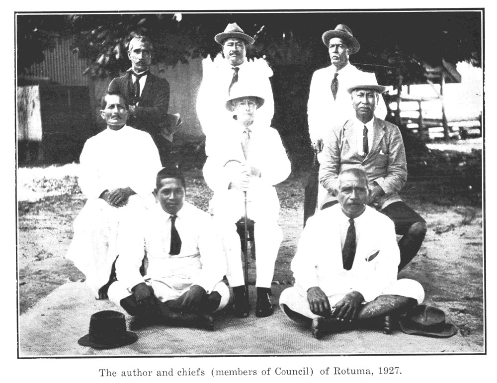 Council of Chiefs of Rotuma, 1927.